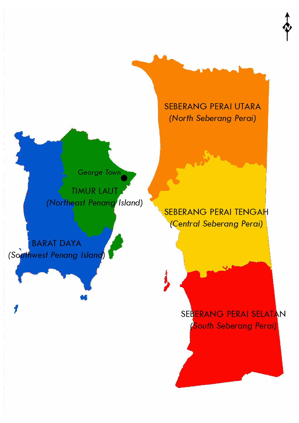 This map diagram shows the five districts of the state of Penang, Malaysia.